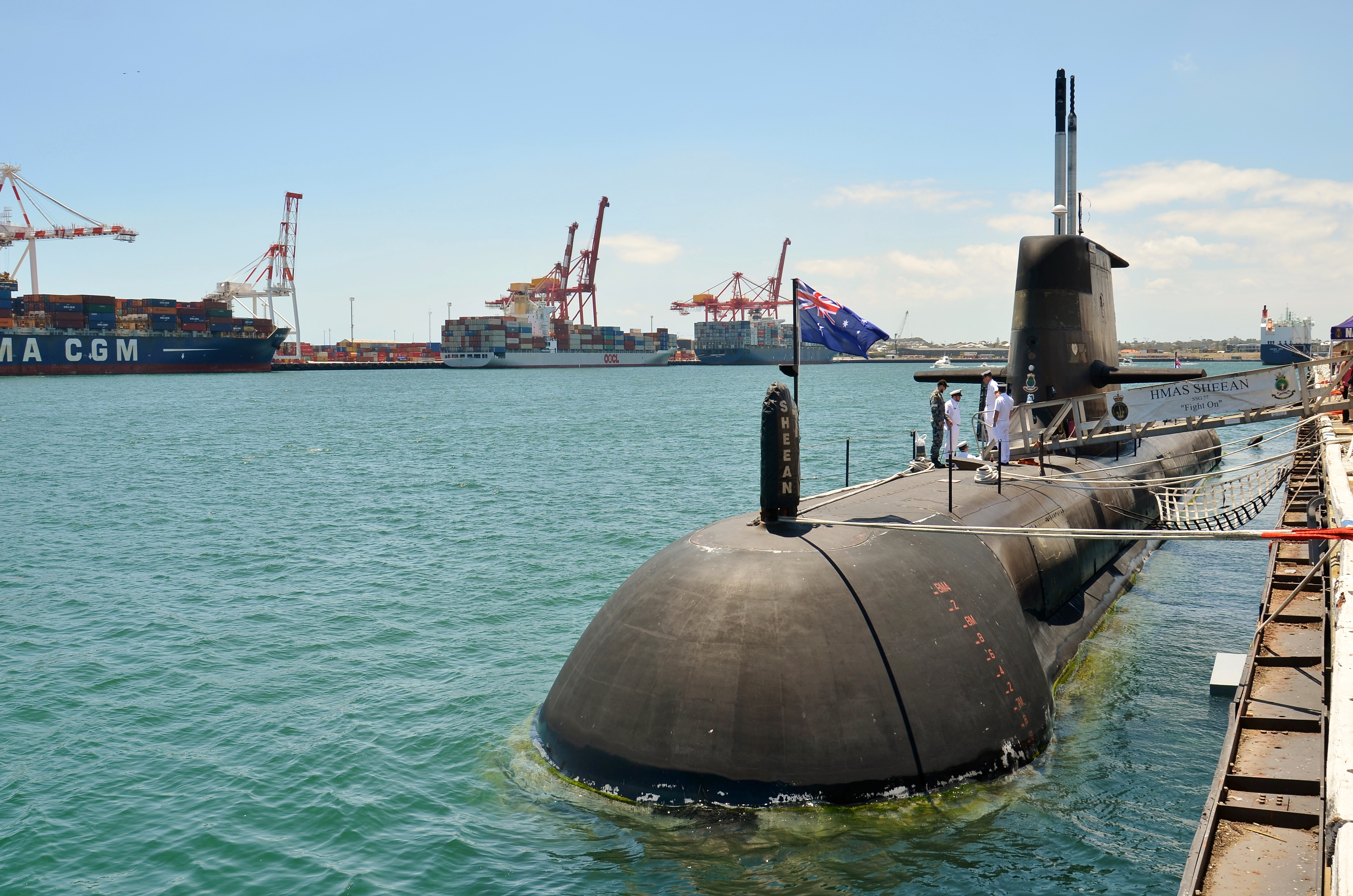 HMAS Sheean (SSG 77), on display at Maritime Day, Victoria Quay, in the inner harbour of the Port of Fremantle, Western Australia.